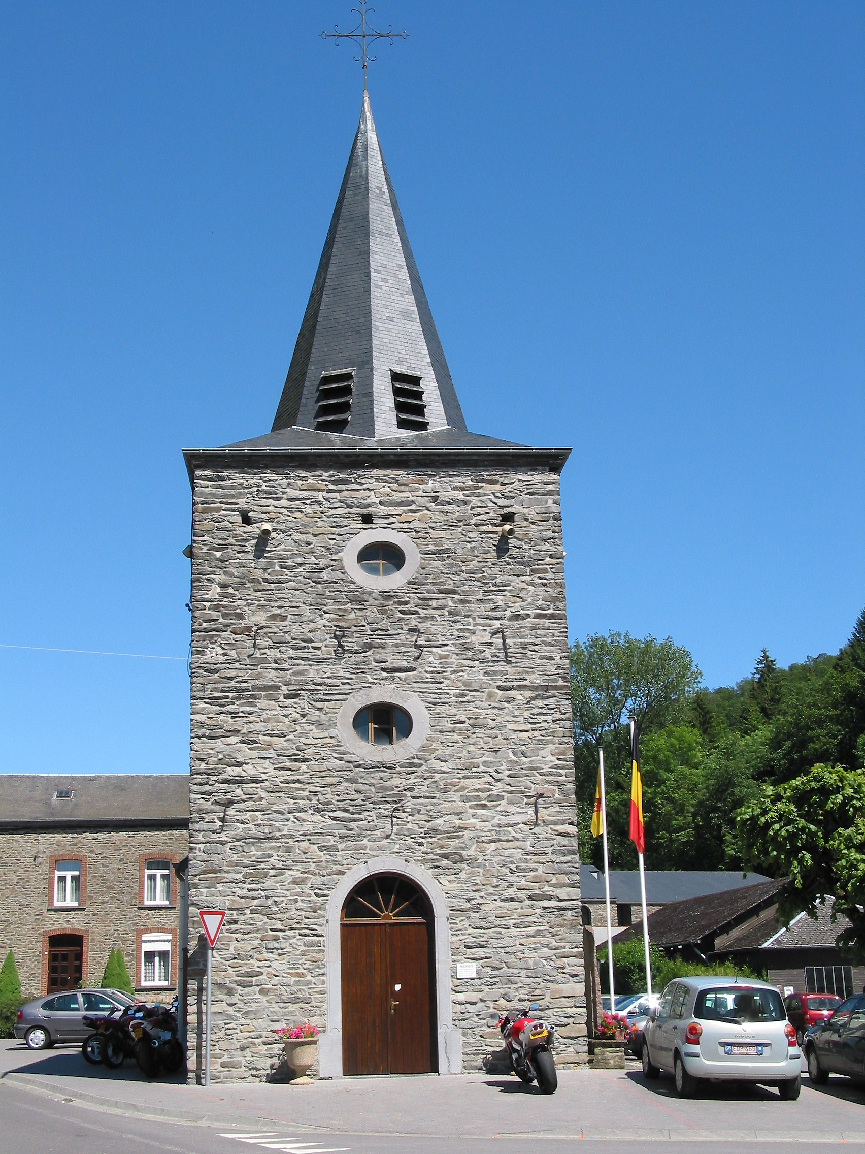 Vresse-sur-Semois (Belgium), the St. Lambert church (1768).